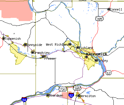 U.S. Census-generated map of Benton County, Washington. Tiger Map Server Browser: Benton County, WA